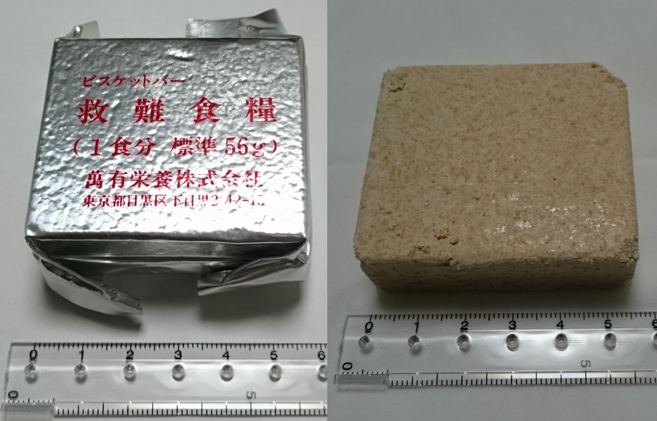 Japanese rescue food "救命食糧" (biscuit bar)